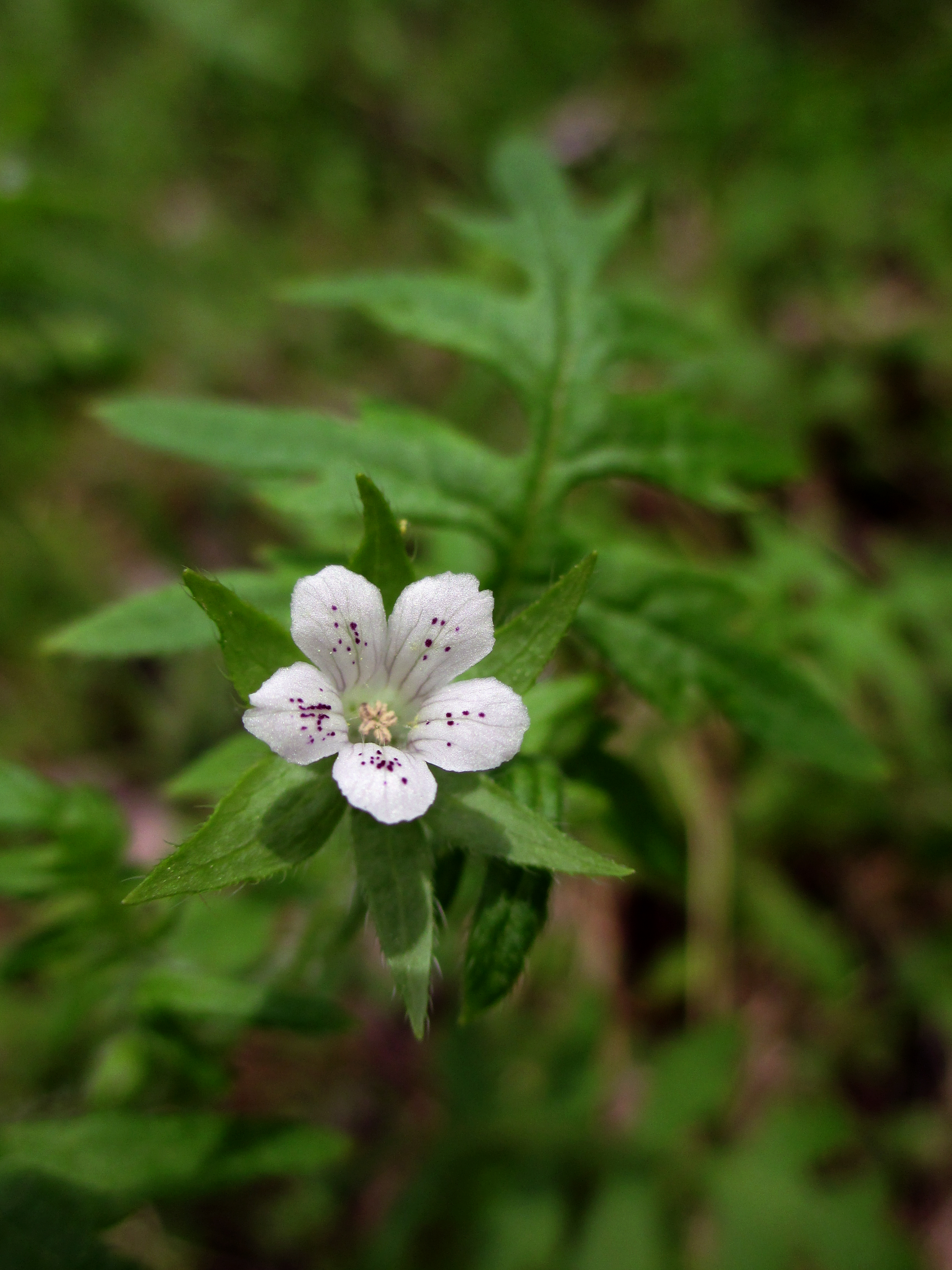 Flower and leaf of Ellisia nyctelea, commonly known as Aunt Lucy. Taken in Warren County, Virginia.